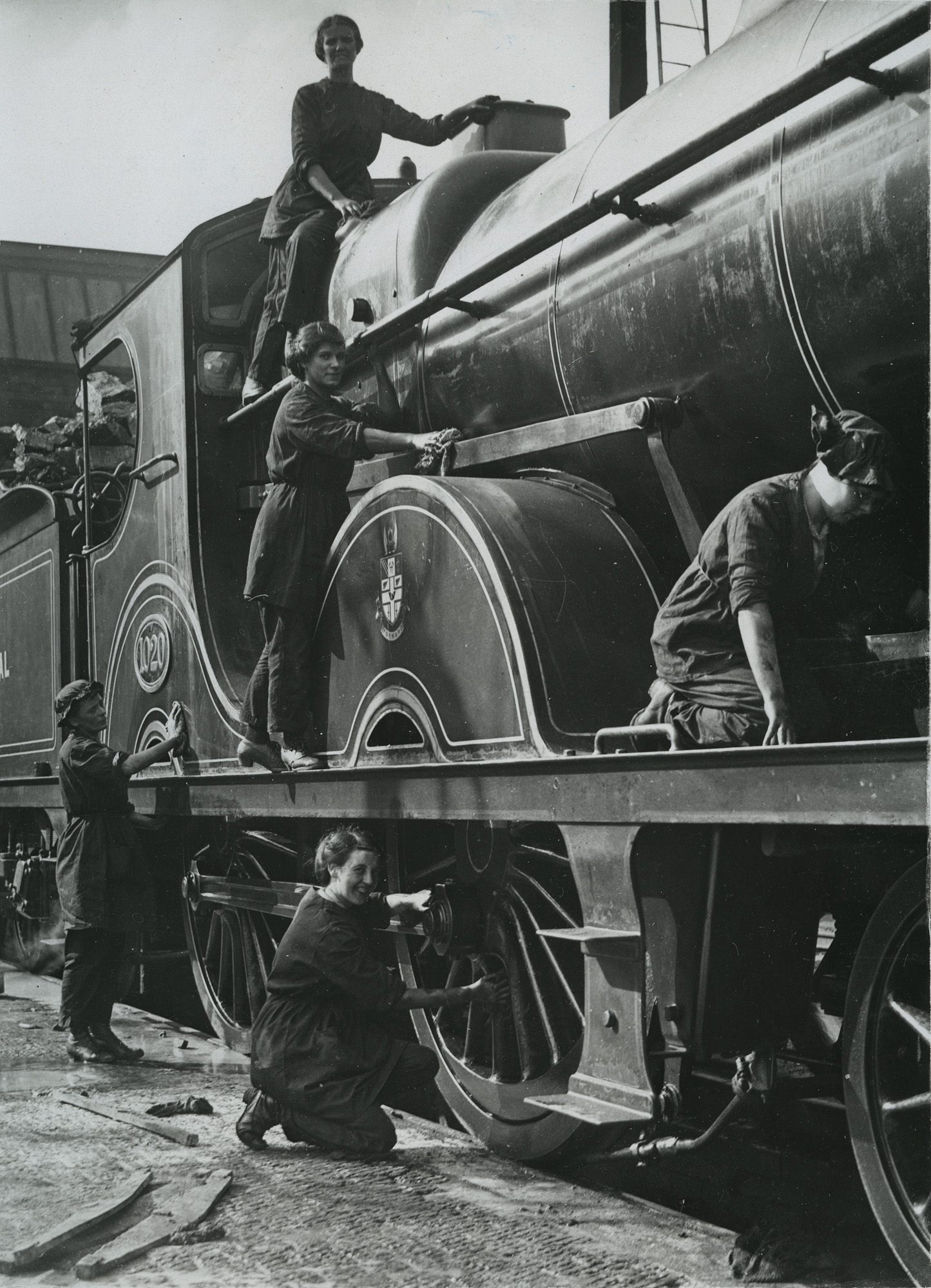 A gang of women locomotive cleaners working on Great Central Railway class 11B locomotive no. 1020 during World War I.No known copyright restrictions. Please credit UBC Library as the image source. For more information, see Alternative Title: Women's Work Creator: Unknown Date Created: 1914 Source: Original Format: University of British Columbia Library. Rare Books & Special Collections. World War I 1914-1918 British Press photograph collection. BC 1763. Permanent URL